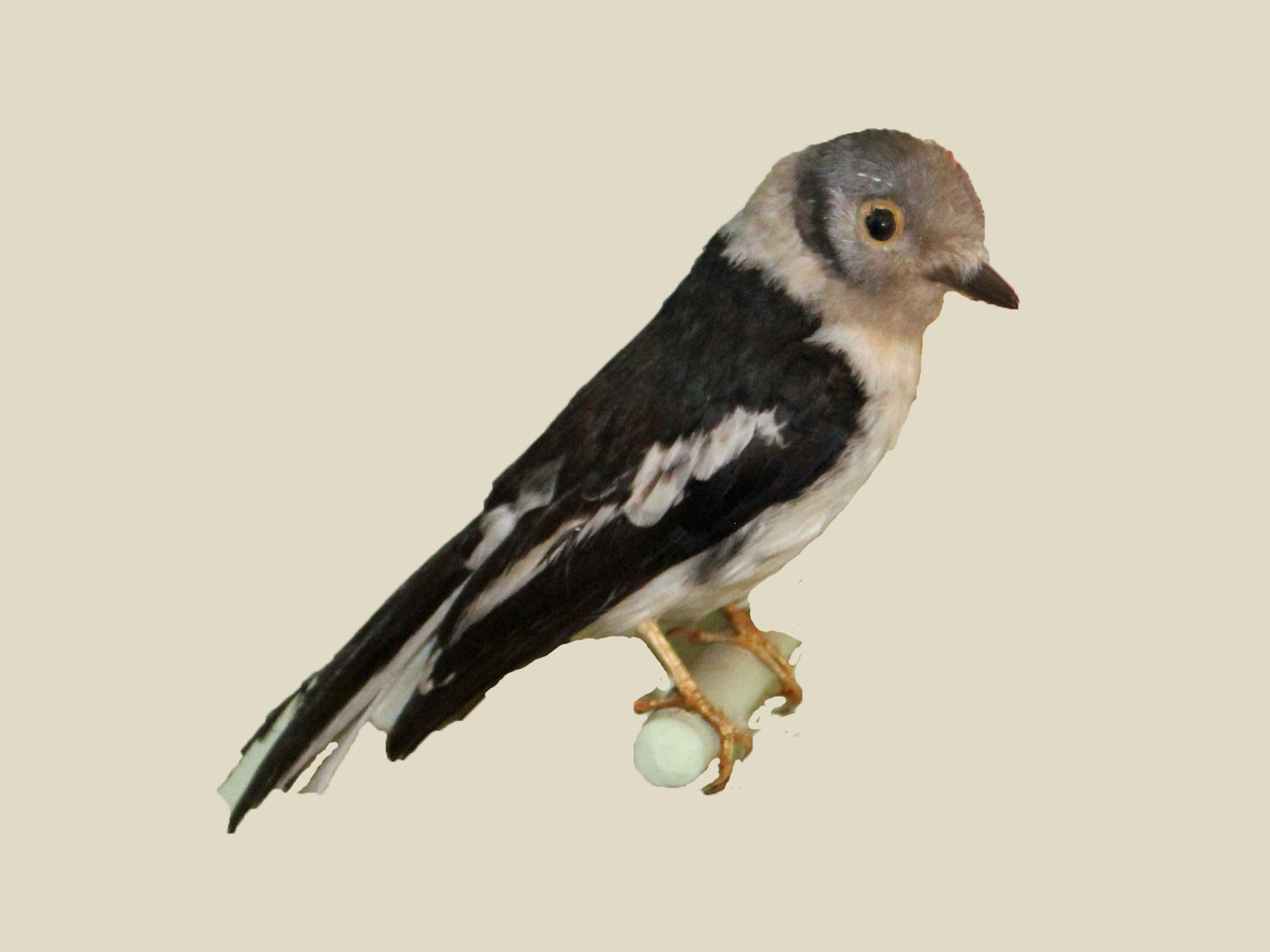 White-crested Helmetshrike (Prionops plumatus); also known as White Helmetshrike. Photograph of a specimen at Nairobi National Museum in Nairobi, Kenya.